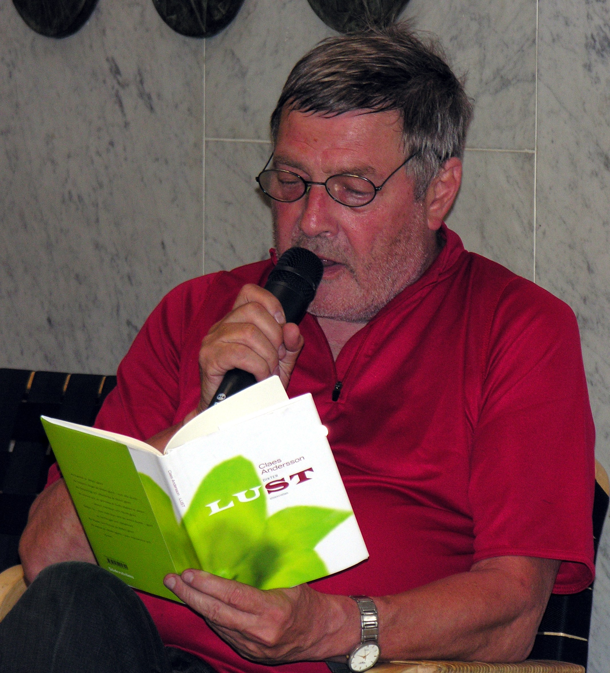 Claes Andersson, Finnish writer, reading poems from his book Lust on the Night of the Arts in Helsinki, 2008.